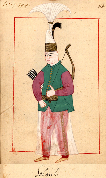 Archer and bodyguard, Solak — "Solak effter Keisaren" 'after the Emperor' — Solak-'left-handed' (Military Pictures from the Ralamb Costume Book, 1657)